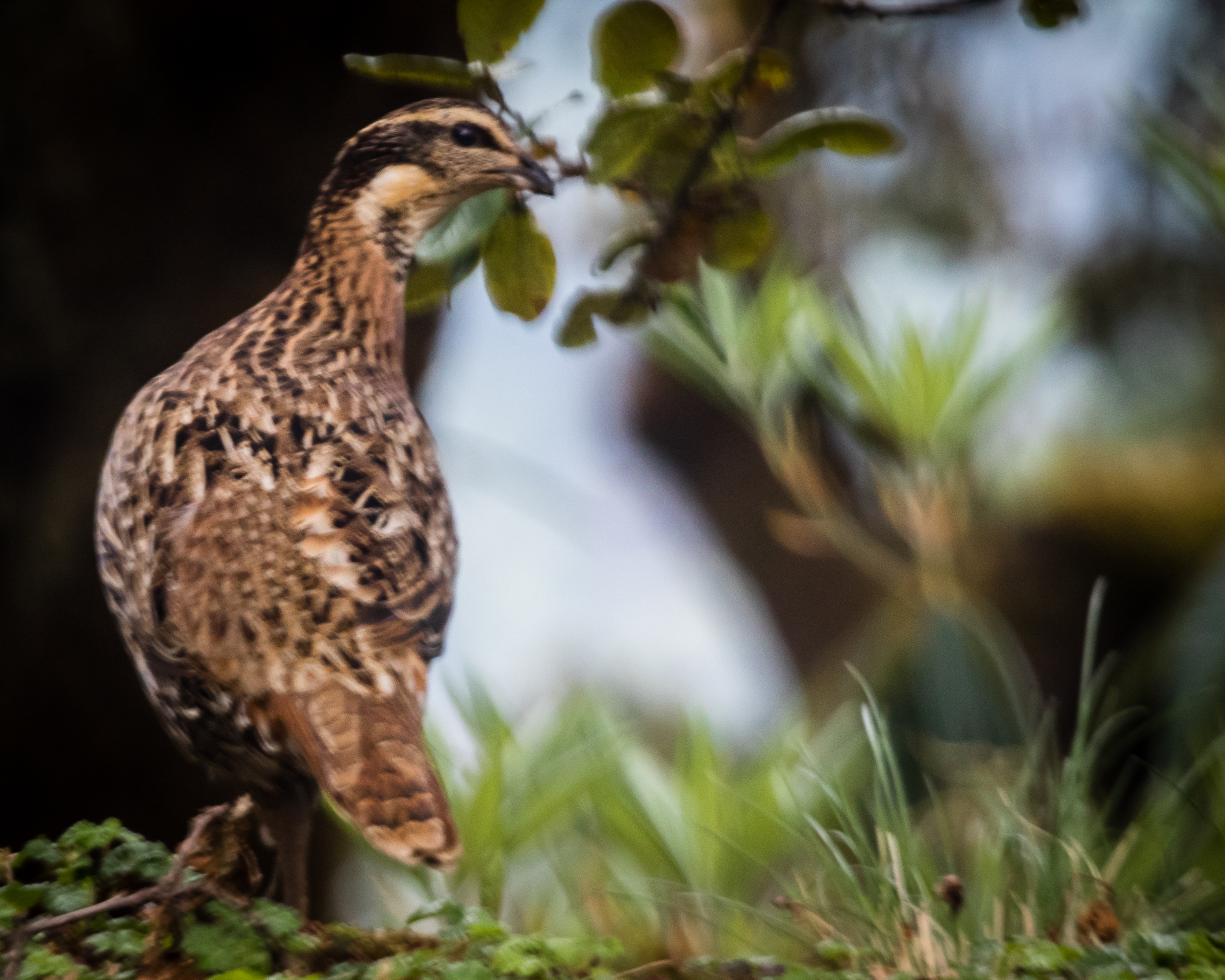 Photographed at Chopta, while on a Photography and Wildlife trip with Nitin Bhardwaj of Photography And Wild Sojourn (PAWS)